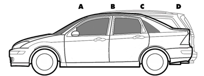 diagram comparing a sedan and wagon from the same model range